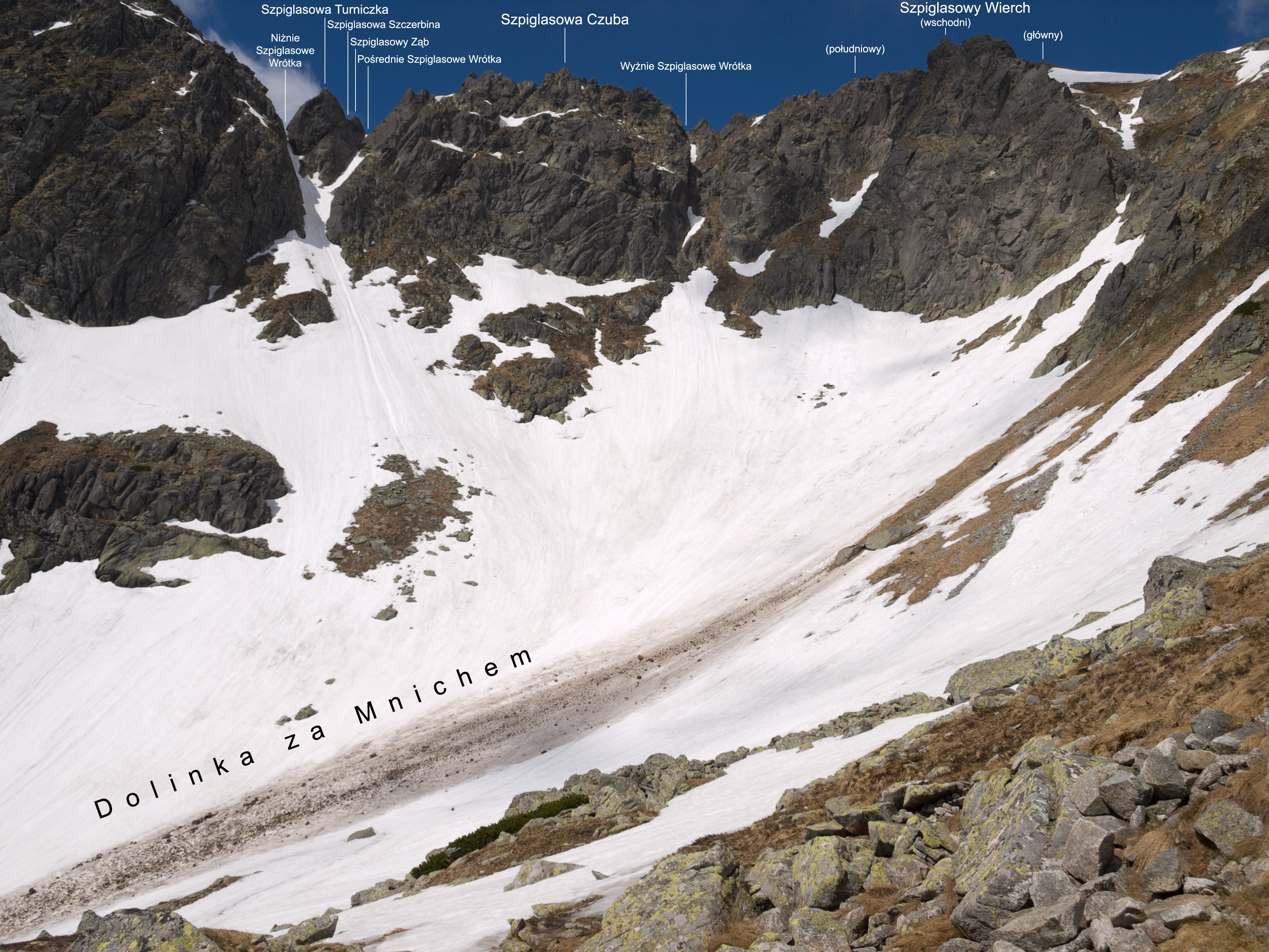 Szpiglasowa Czuba and Szpiglasowy Wierch – view from Dolinka za Mnichem (Polish captions).